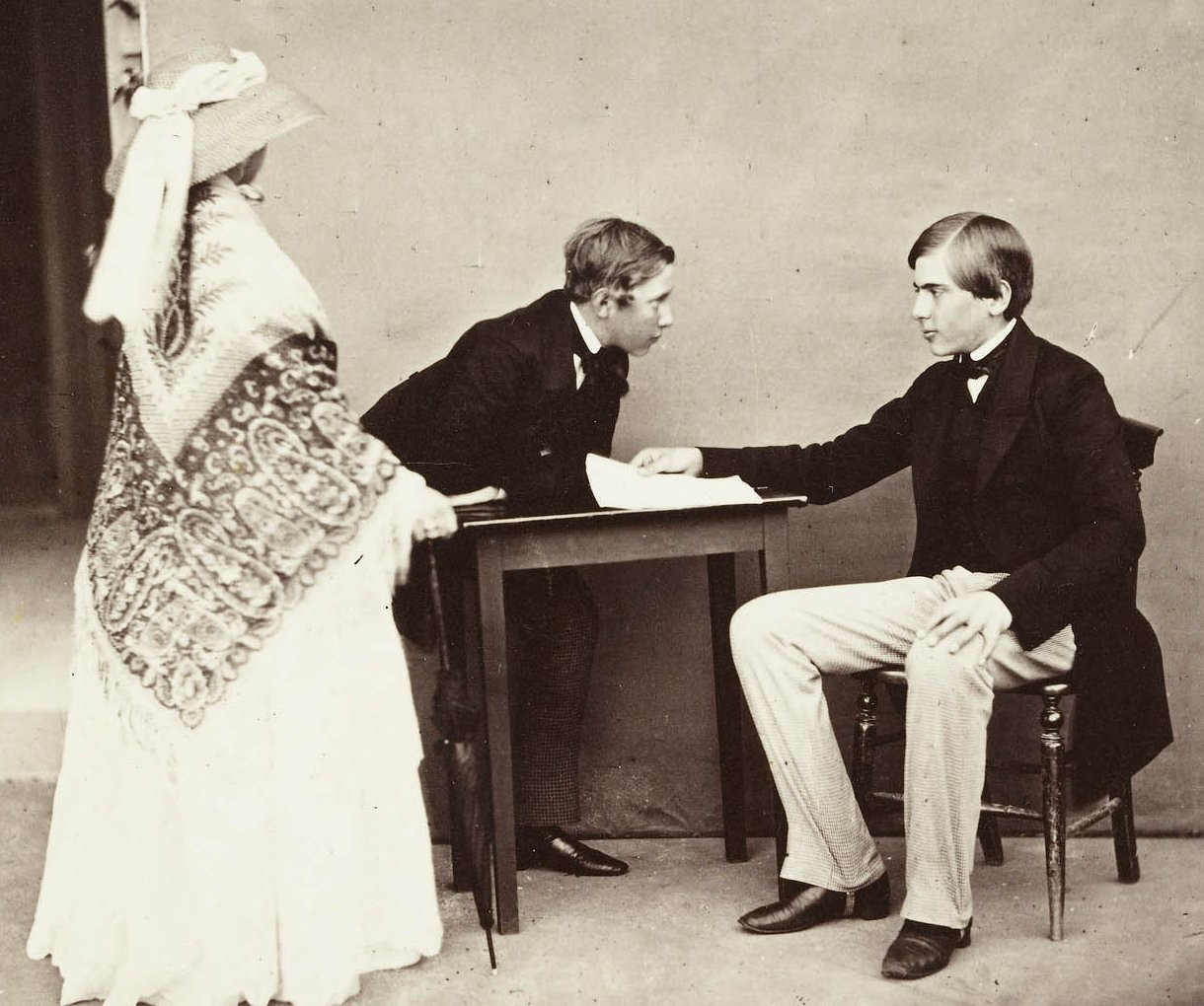 Photograph of Queen Victoria (1819–1901) standing, wearing a shawl and bonnet, with her back to the viewer. Leaning over a table in right side profile is Luís, Duke of Oporto (1838–89), later Luís I, King of Portugal, who faces King Pedro V (1837–61), King of Portugal, who is seated in thre-quarters left, holding a piece of paper in his right hand. Taken at Osborne House, Isle of Wight.